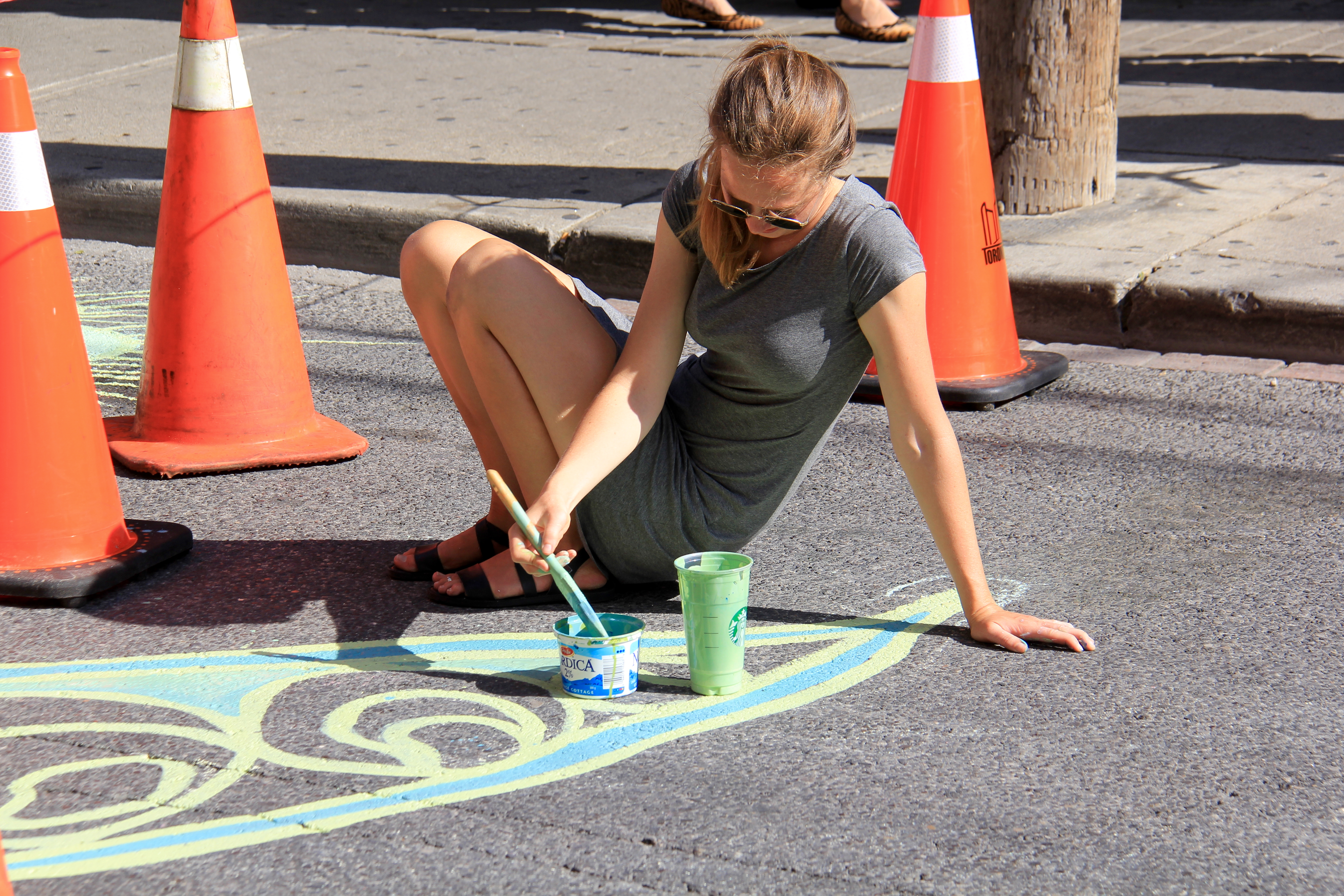 Pedestrian Sunday at Kensington Market.